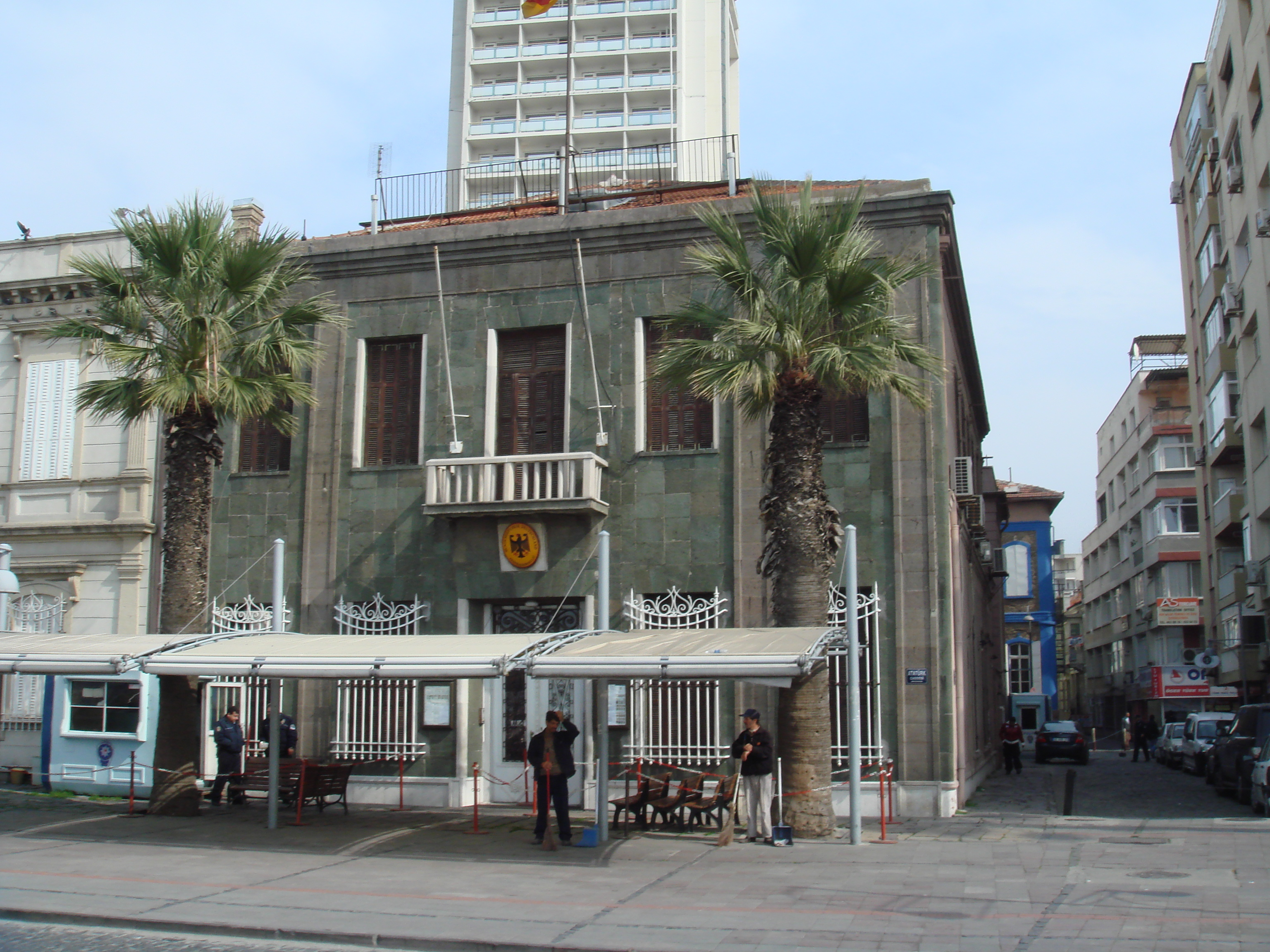 Former Consulate-General of Germany in İzmir, Turkey.